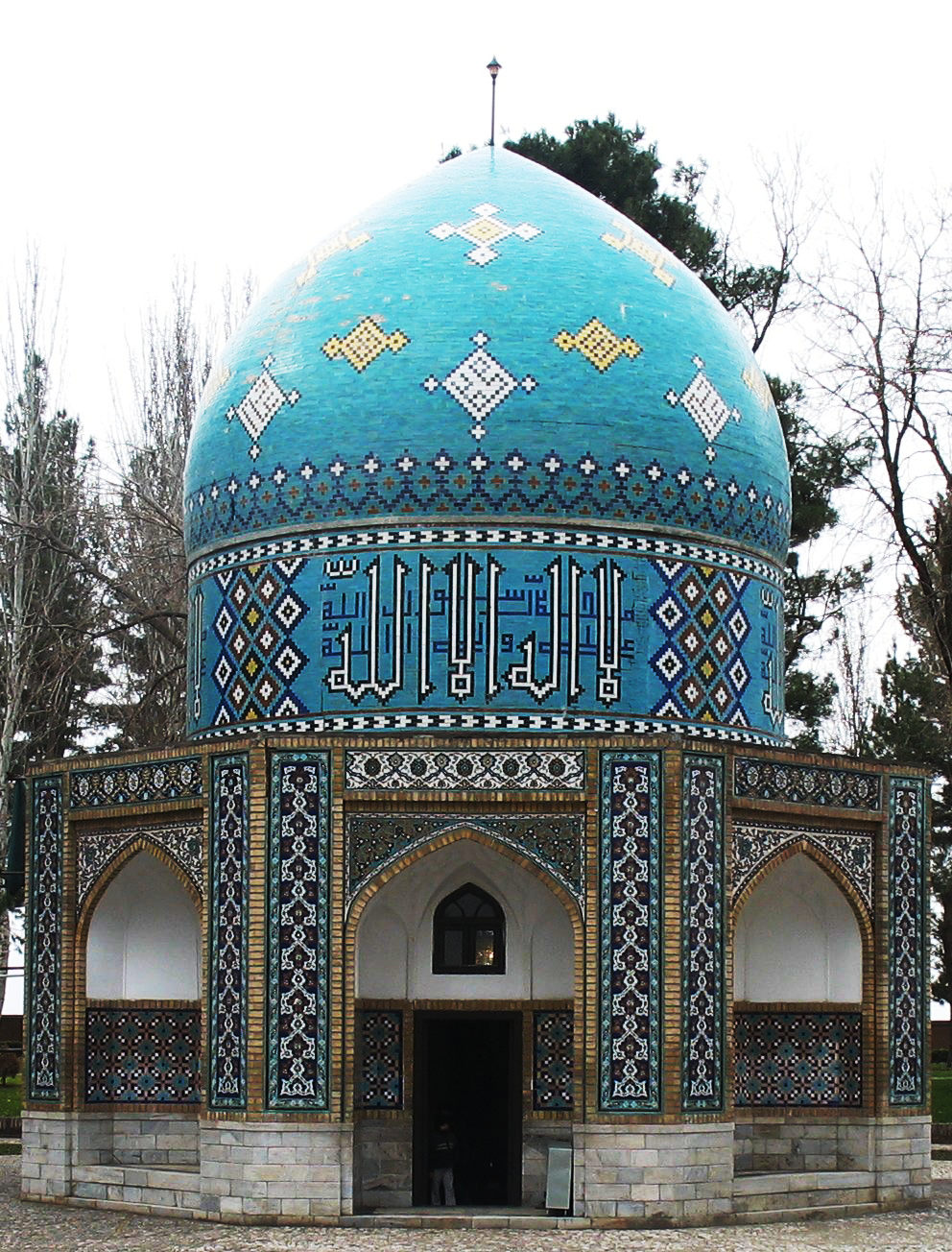 Focused picture on Mausoleum of Attar Neyshaburi in Neyshabur